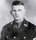 Martin Sommer